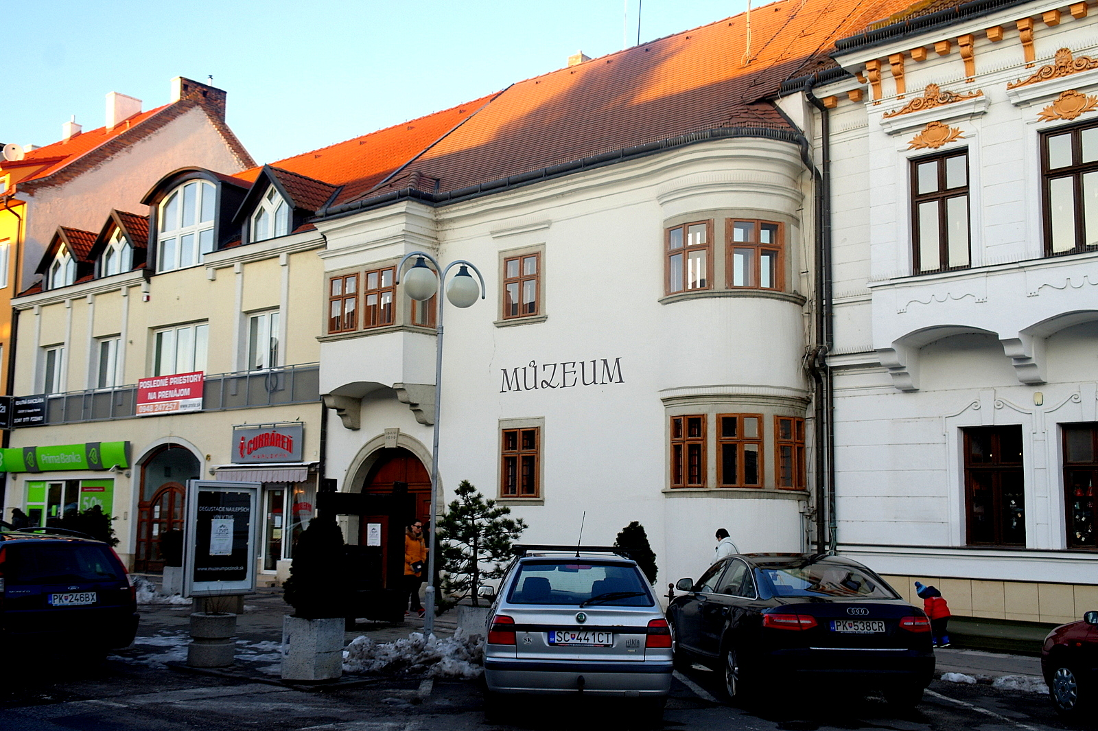 Burgher house called Kaviak´s house, Štefanik str. 4, Pezinok. A typical Renaissance corner bay window. In the house with extensive cellars, built in 1638, there are exposures of Malokarpatské museum, focusing on the city's and regional viniculture´s history.